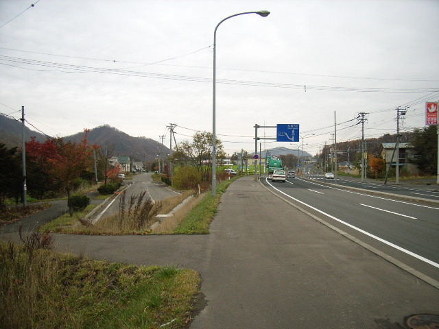 National Route 230 of Japan. Sappporo, Hokkaidō prefecture, Japan.